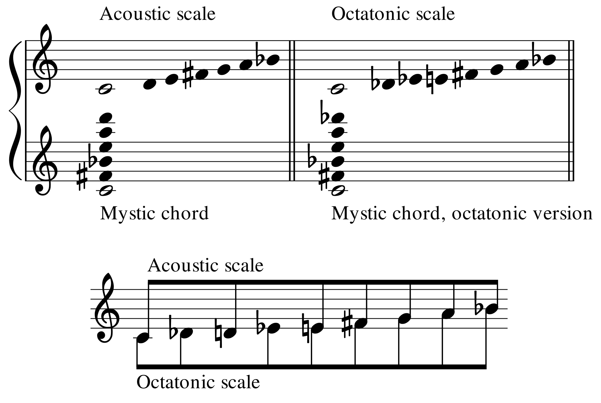 Acoustic and octatonic scales in Scriabin's 3rd period